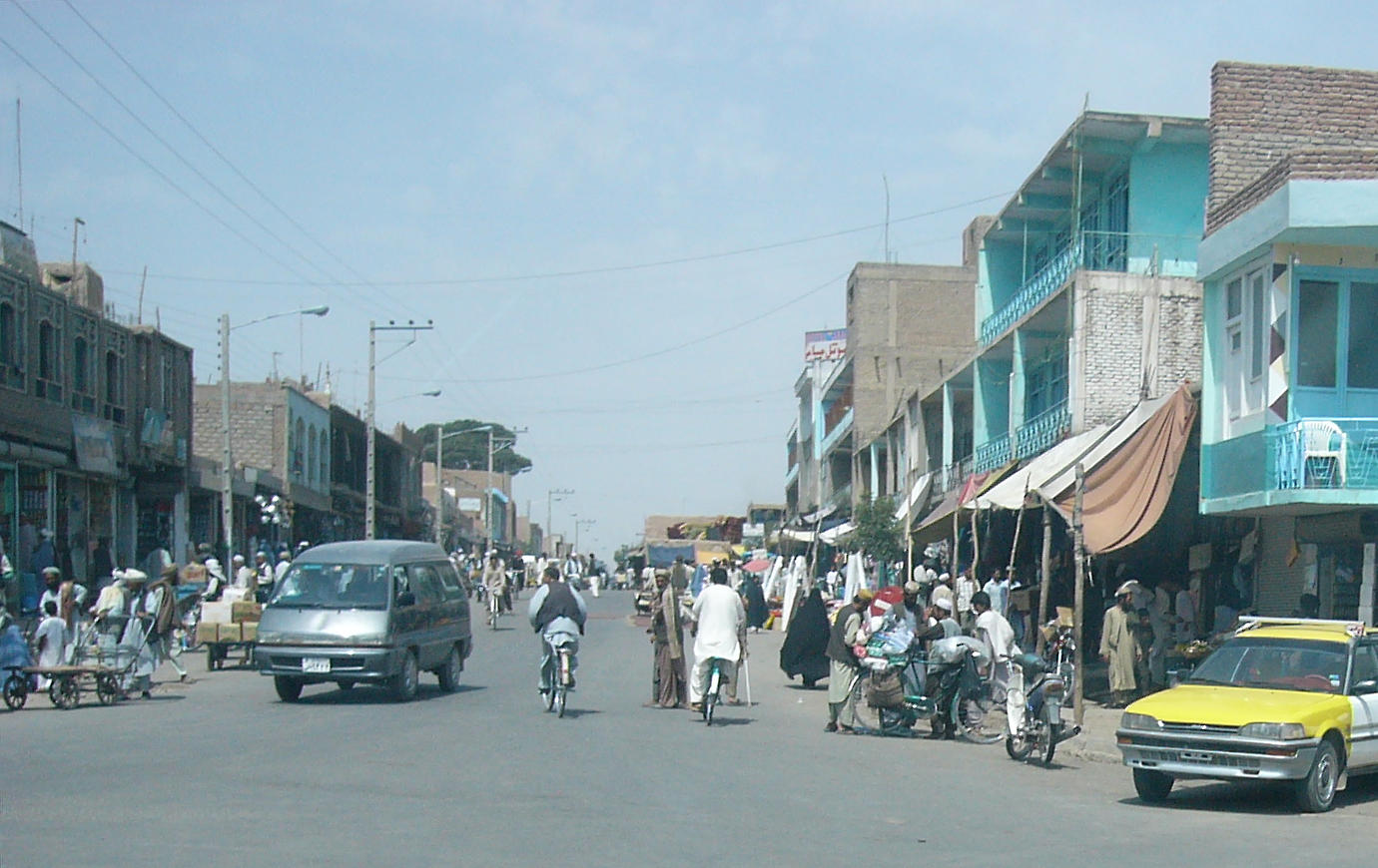 Street in Herat, Afghanistan